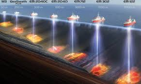 每一種測深機會使用不同的頻率及束寬，應用在不同的深度上，越深所需要的能量越大，波長必須較大則頻率相對較小，能量消散較慢可以測量較深的深度，故再不同的測量區域，會選用何事的測深機來施測。